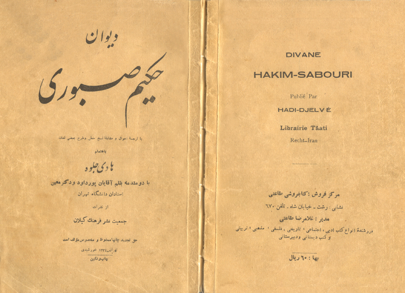 this is considered in public domain now because its copyright condition has been already expired in Iran. according to the "National law in support of authors, composers and artists" ratified in 01/01/1970 and published in 01/02/1970, the license for photographs and films after their issuing date is valid for 30 years.